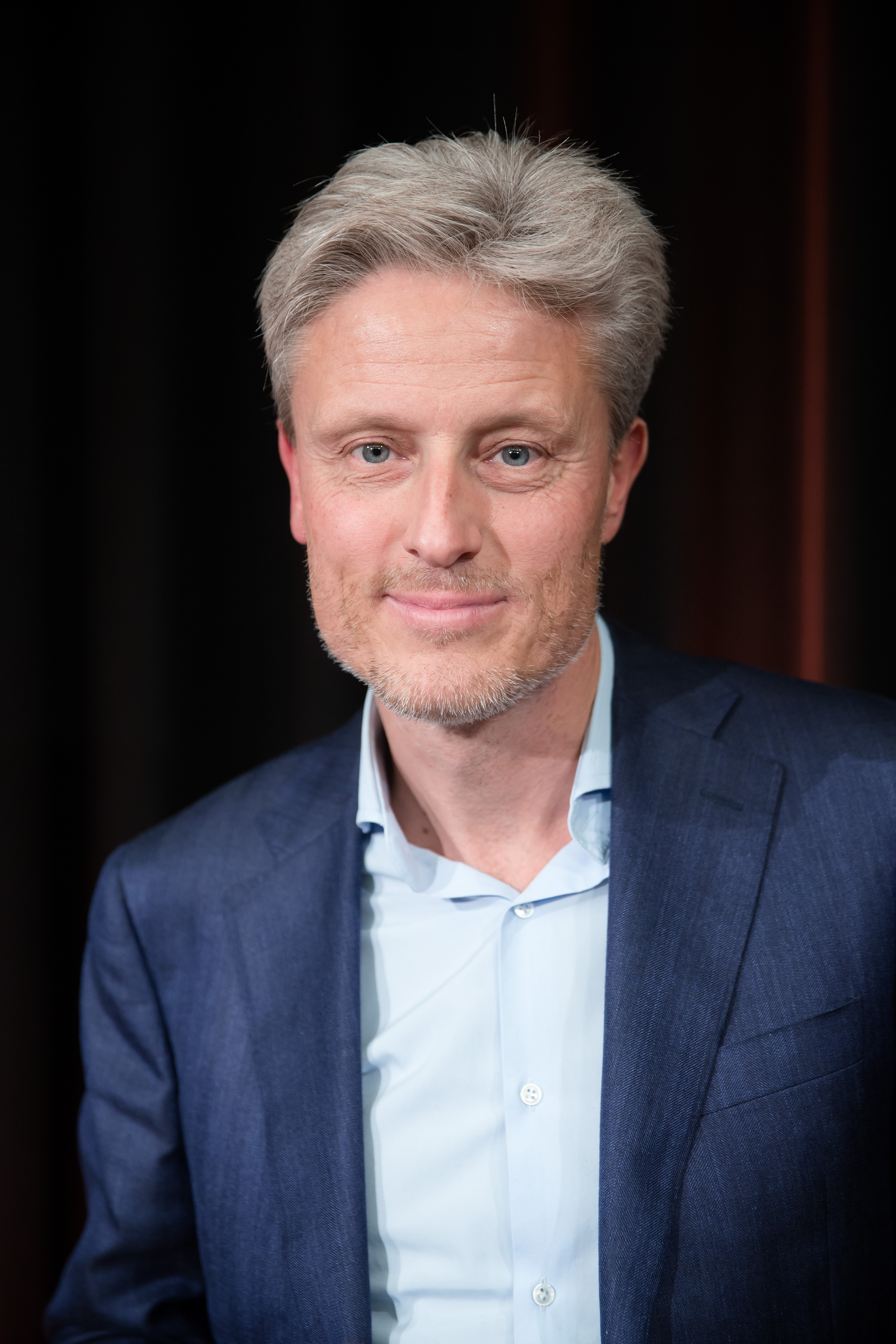 Florian Scheuba at the Austrian Cabaret Award 2015 at Urania in Vienna, Austria.